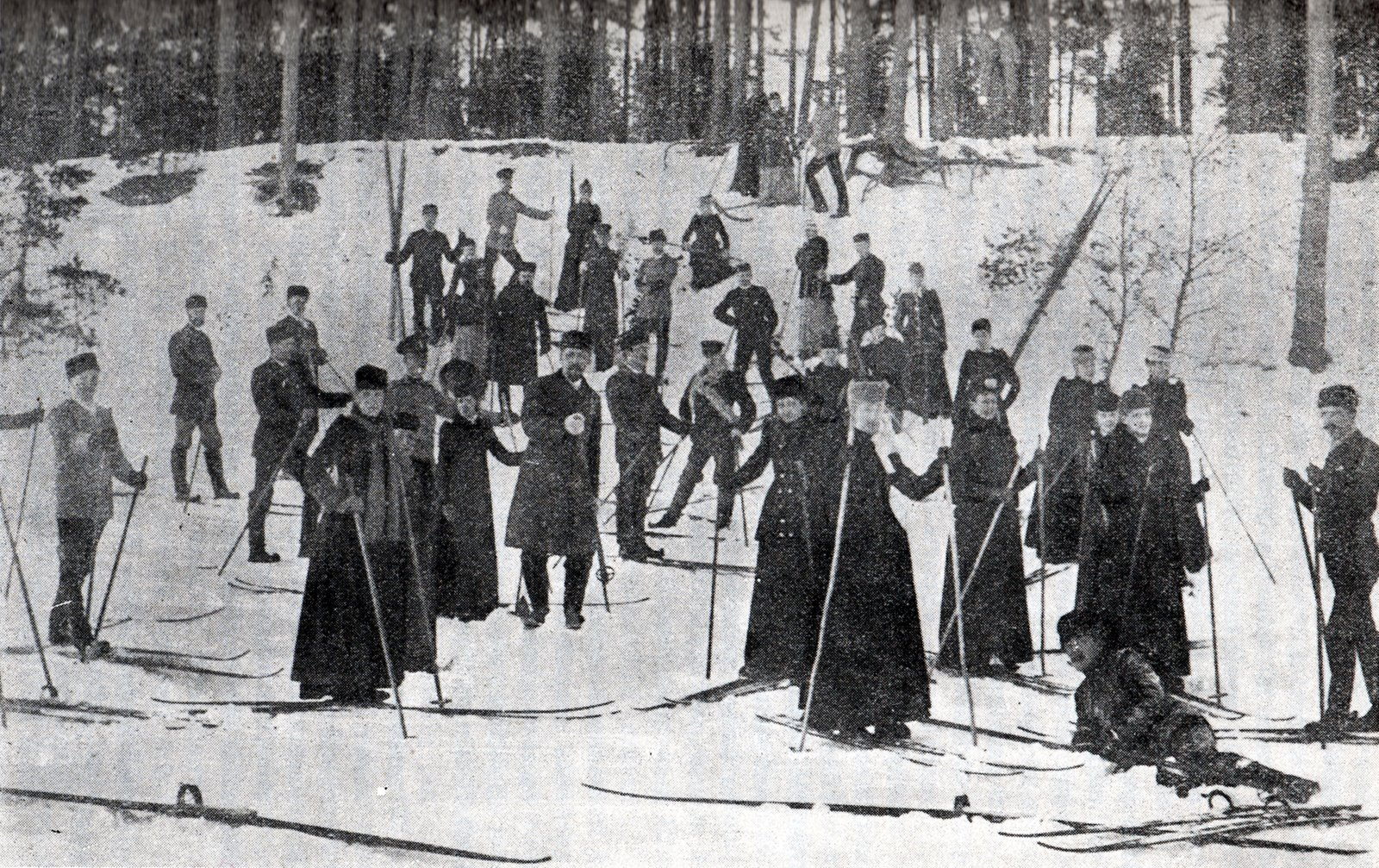 Group of cross-country skiers in Oulu in 1893.